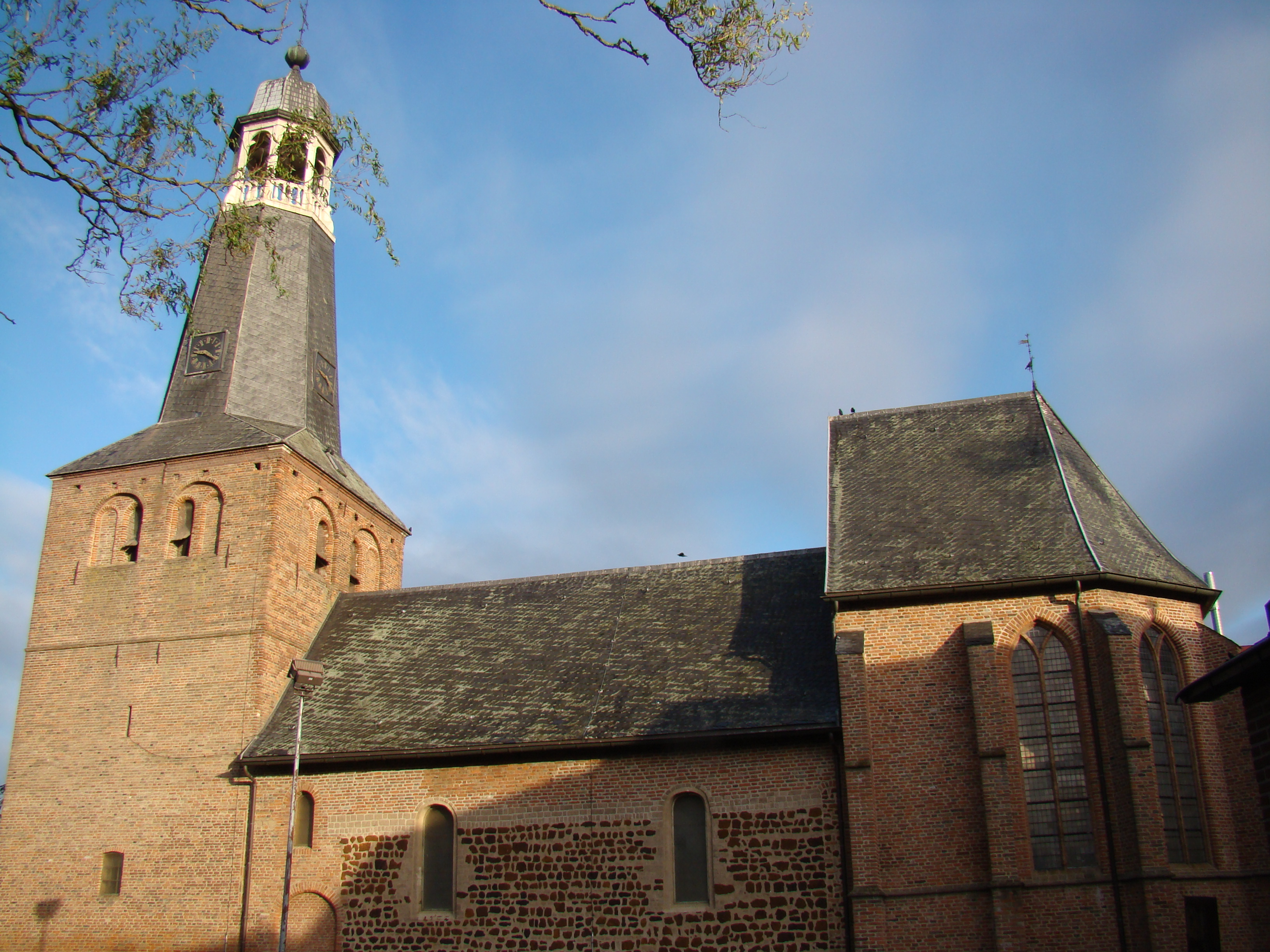 Oude st. Mauritiuskerk at Silvolde, Netherlands